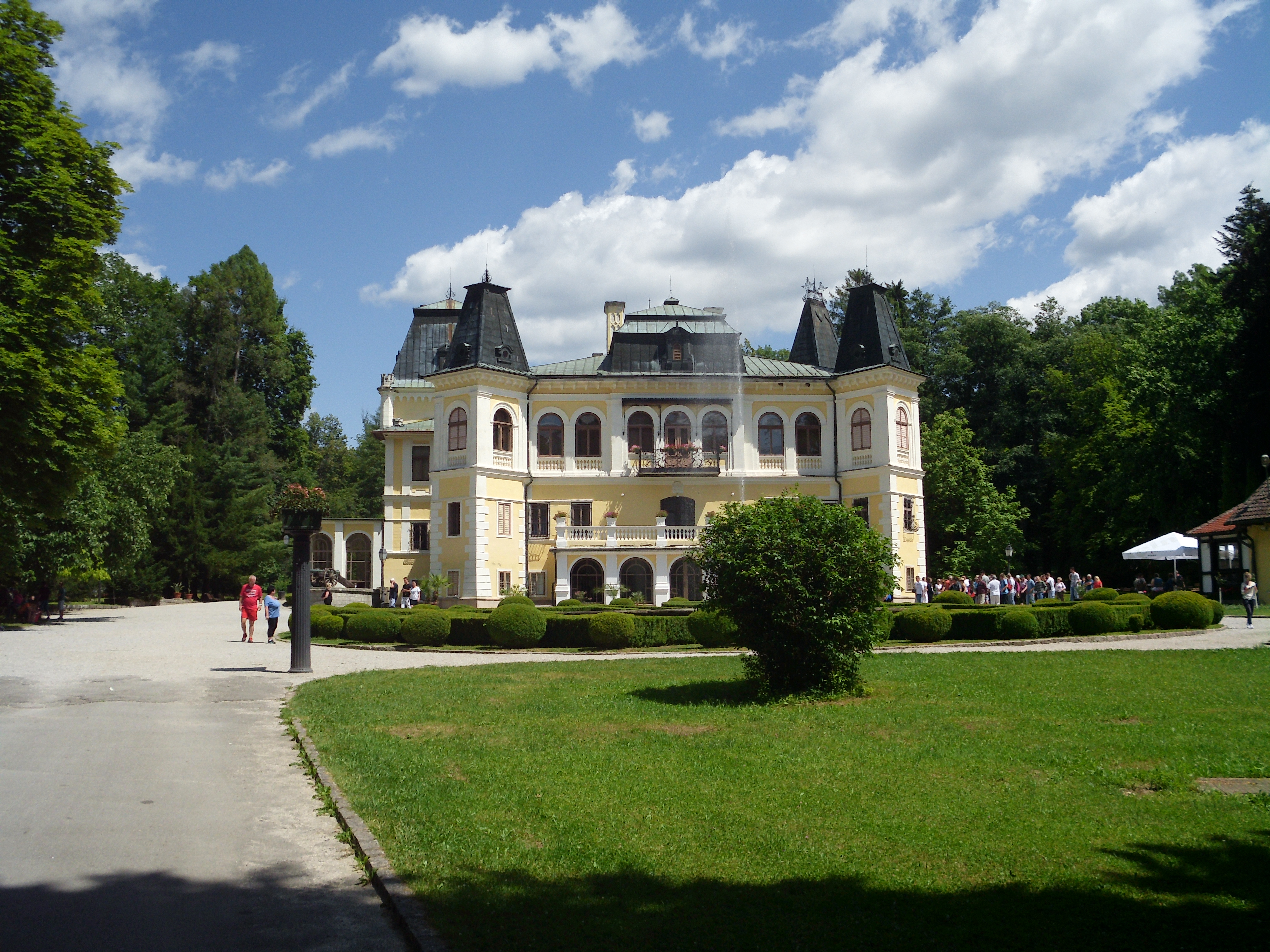 A palace in Betliar.